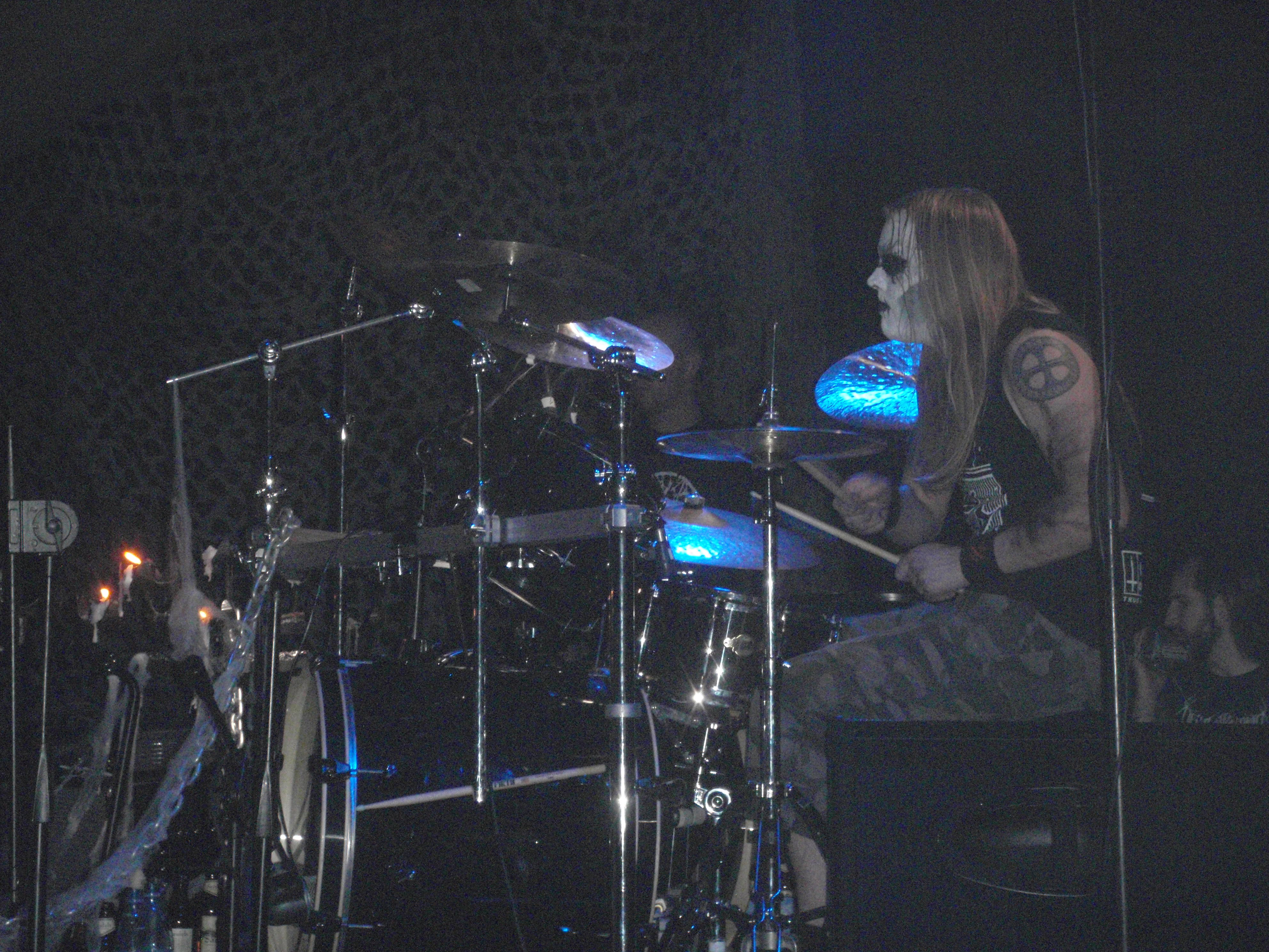 Thurzur with Taake at Black Flames of Blasphemy (2009).